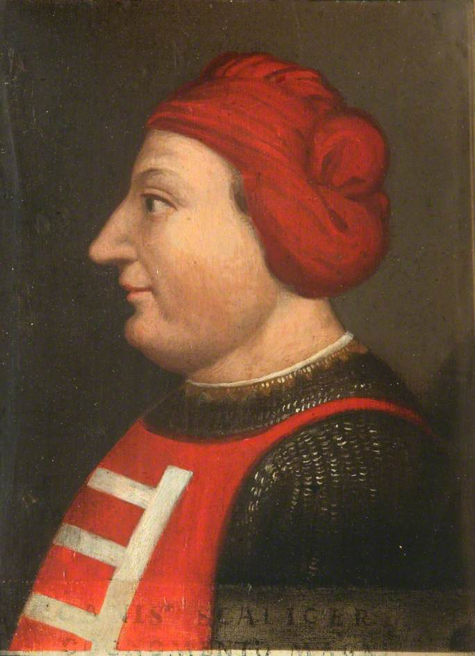 portrait of Cangrande della Scala, 17th century.